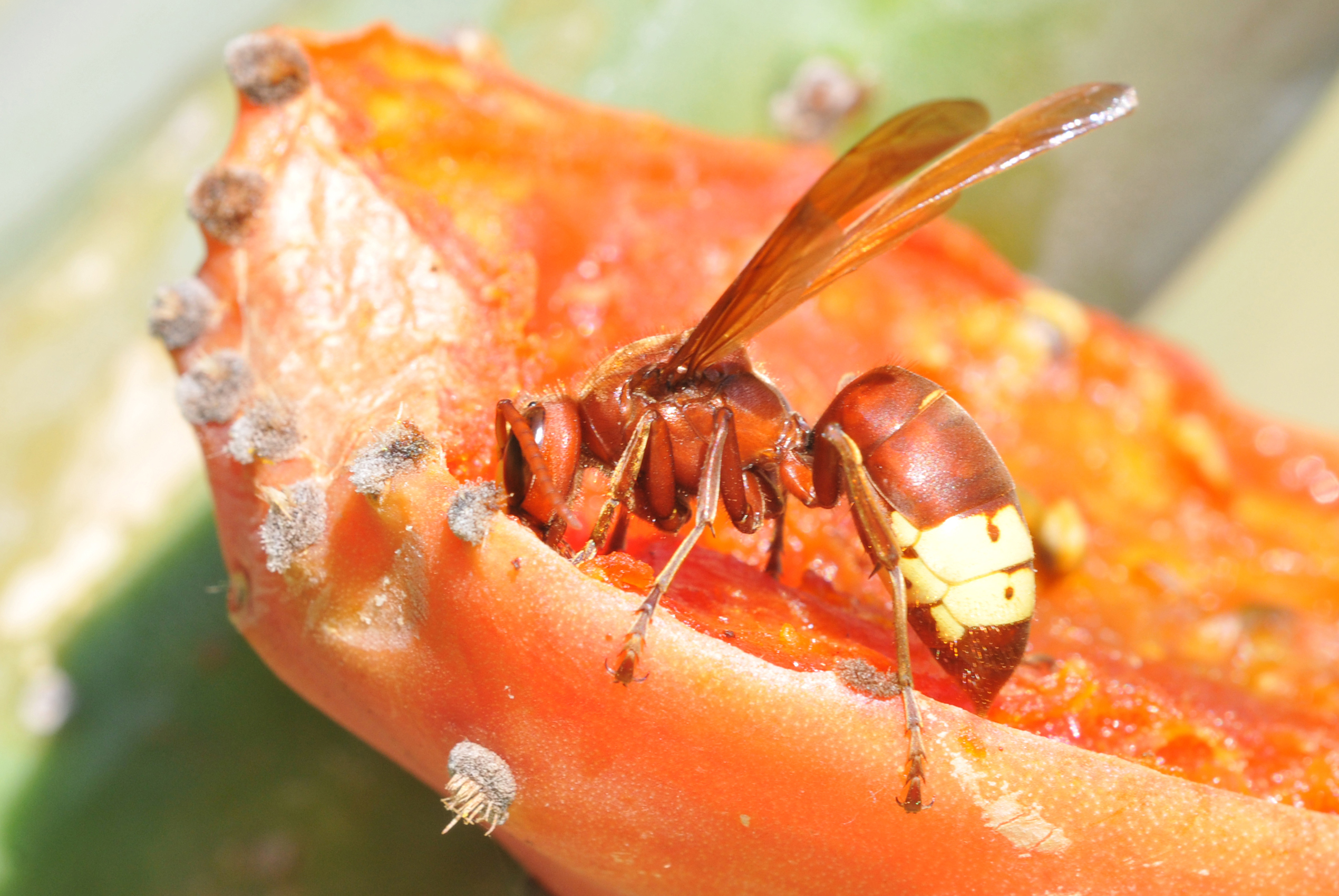 An Oriental Hornet (Vespa orientalis) feeding Indian fig (Opuntia ficus-indica). Ayaş, Mersin - Turkey.